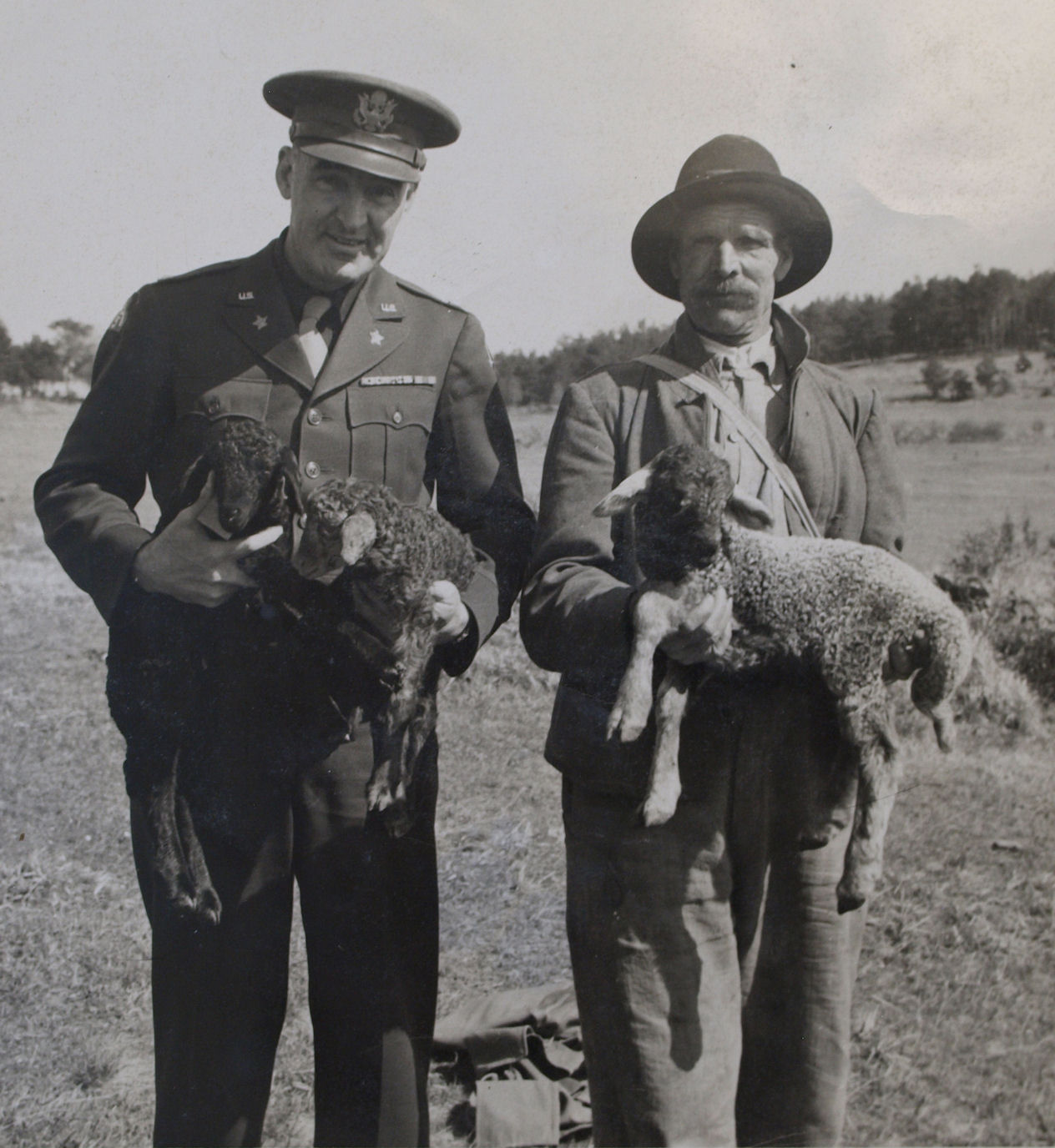 Photograph of LTC Stanley Andrews with a Hungarian refugee herding his sheep in Bavaria in late 1945. Other information Original photograph is in the collection of the Truman Presidential Library, Independence, Missouri. This photograph's catalogue number is 71-3605.